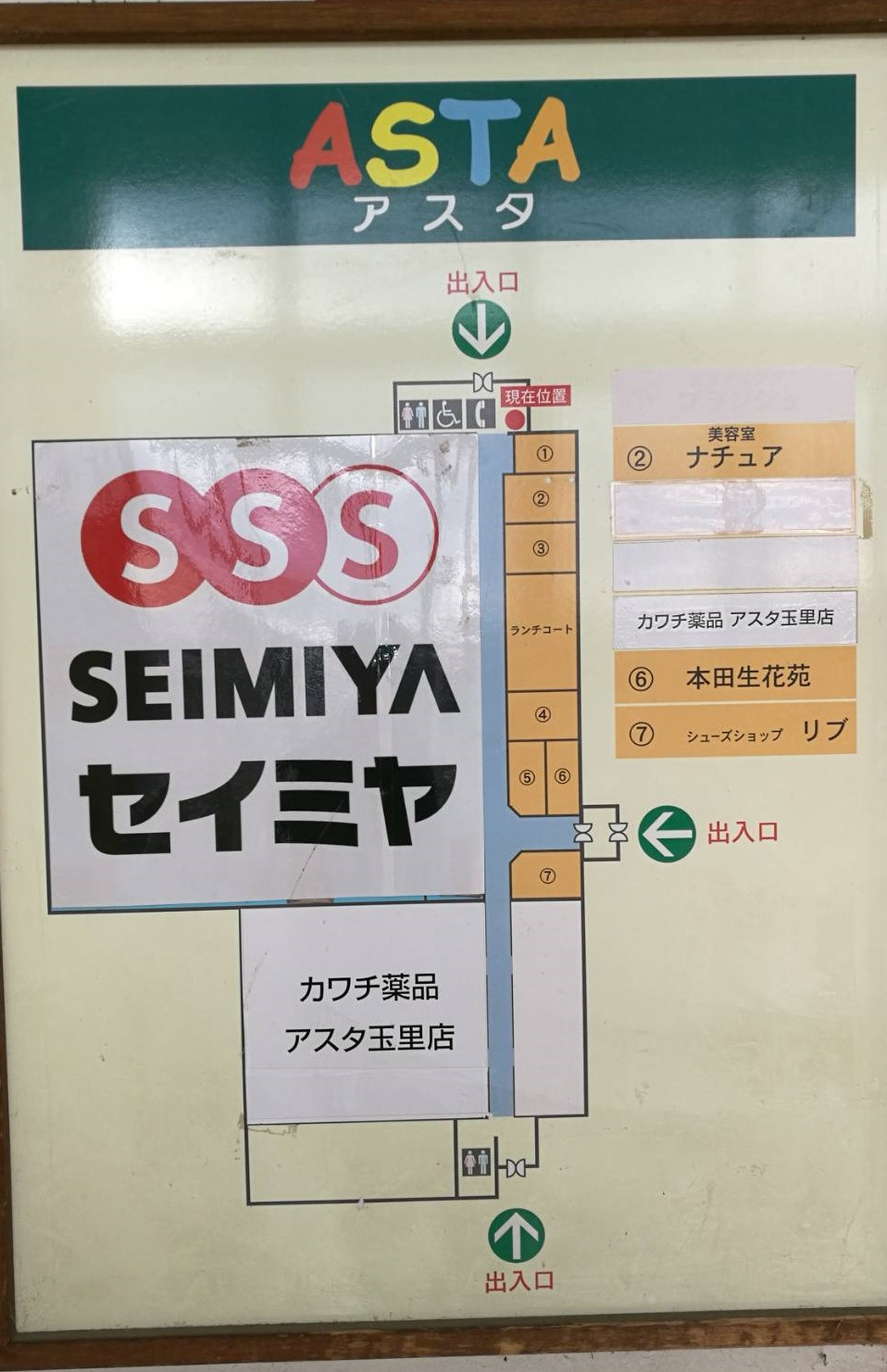 ASTA tamari